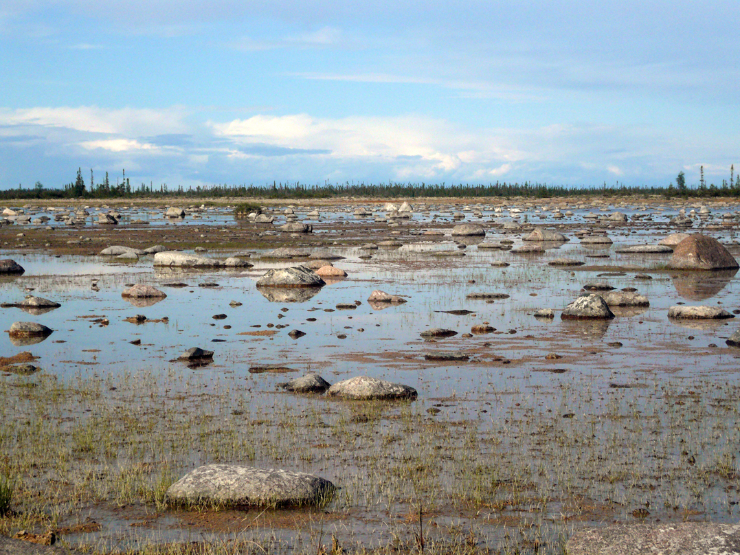 GSLAKE